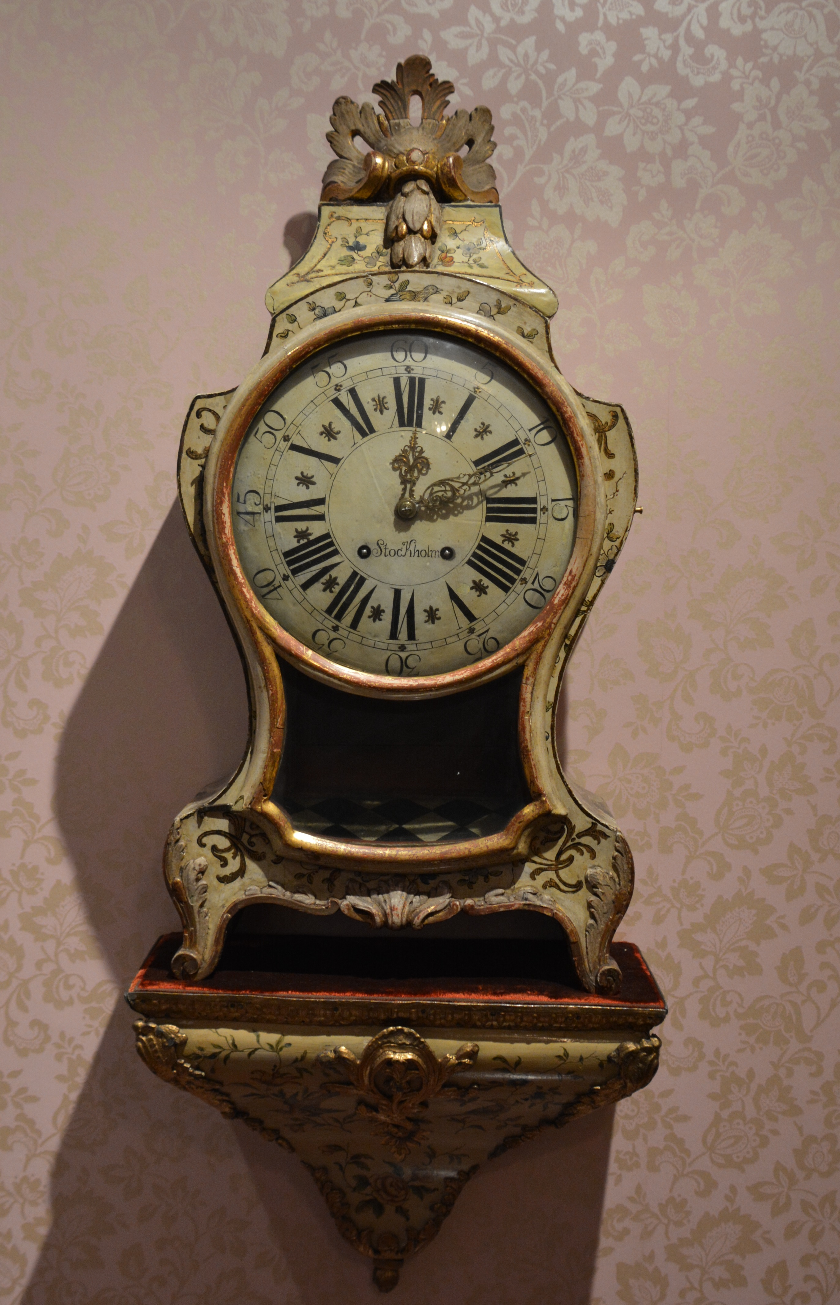 Clock by Petter Ernst, Stockholm, 1760-70